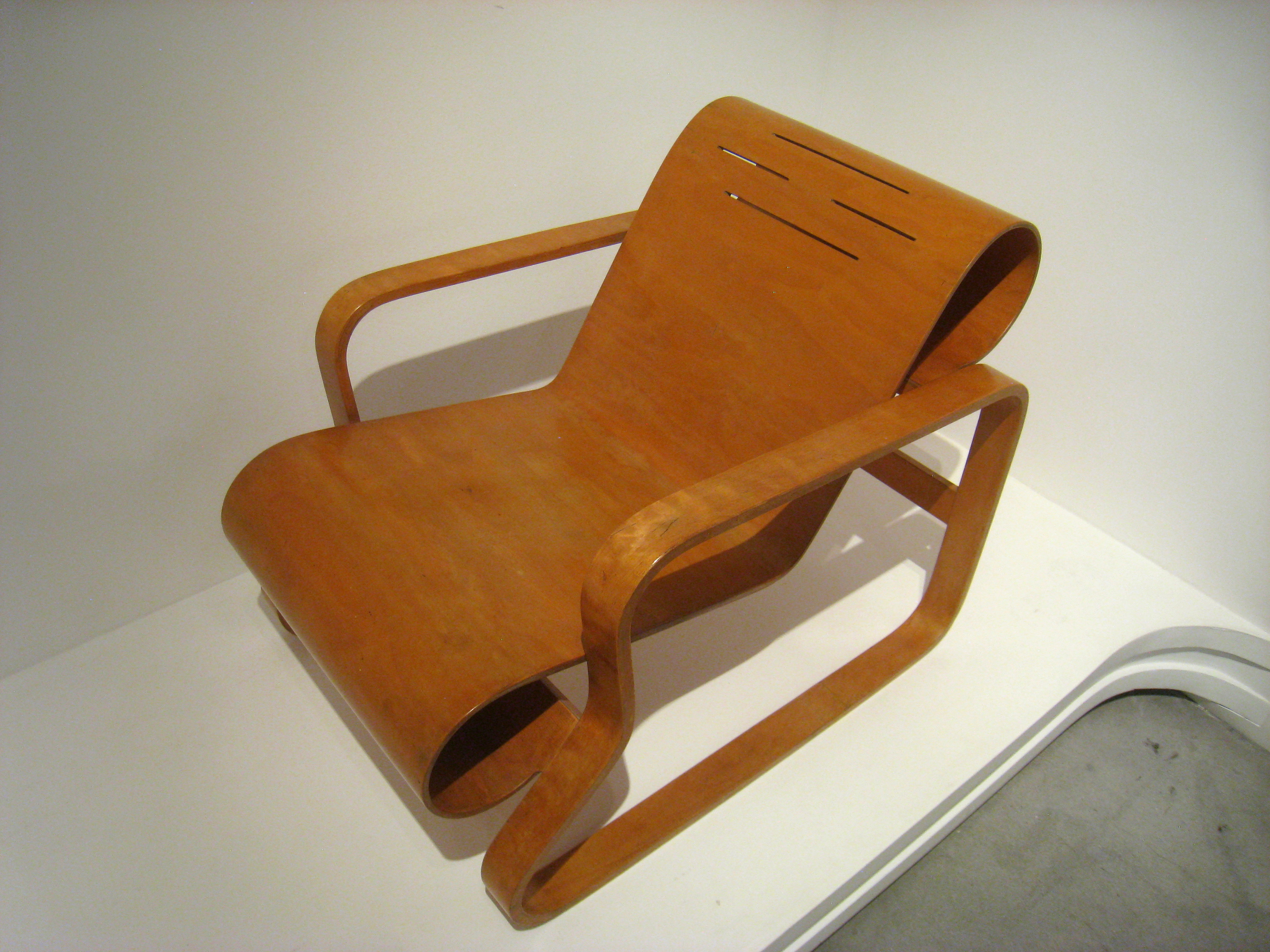 Chair, model 41, 1931-32, designed by Alvar Aalto, manufactured by Oy Huenekalu-ja Rakennustyotehdas AB, Turku, Finland. Exhibit in the Wolfsonian-Florida International University Museum, 1001 Washington Avenue, Miami Beach, Florida, USA. Photography was permitted in this area of the museum without restrictions.